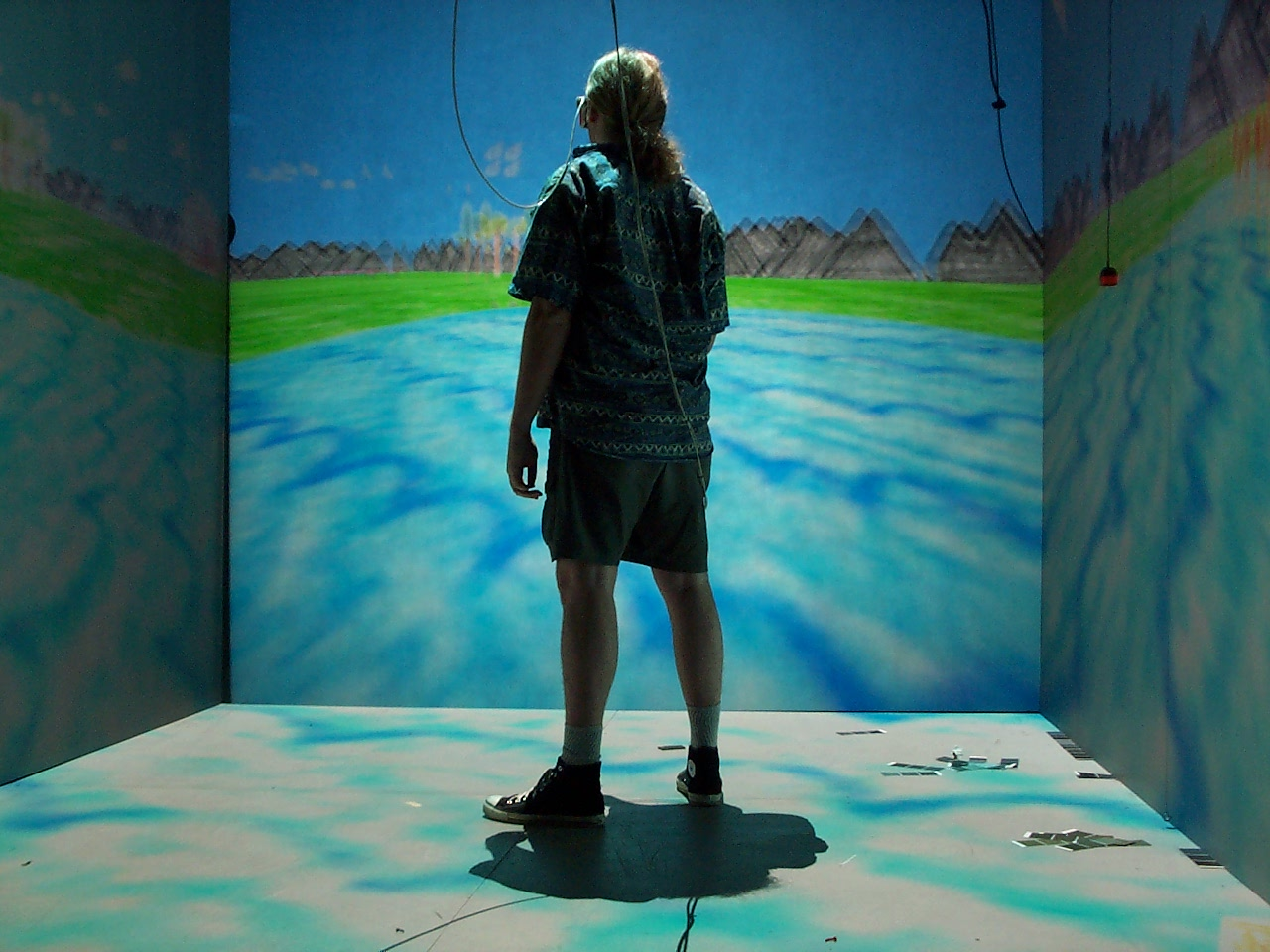 The Cave Automatic Virtual Environment at EVL, University of Illinois at Chicago. This shows a user (me) inside the CAVE. It was taken when the CAVE was being upgraded to use new 5000-lumen Christie Mirage DLP projectors.